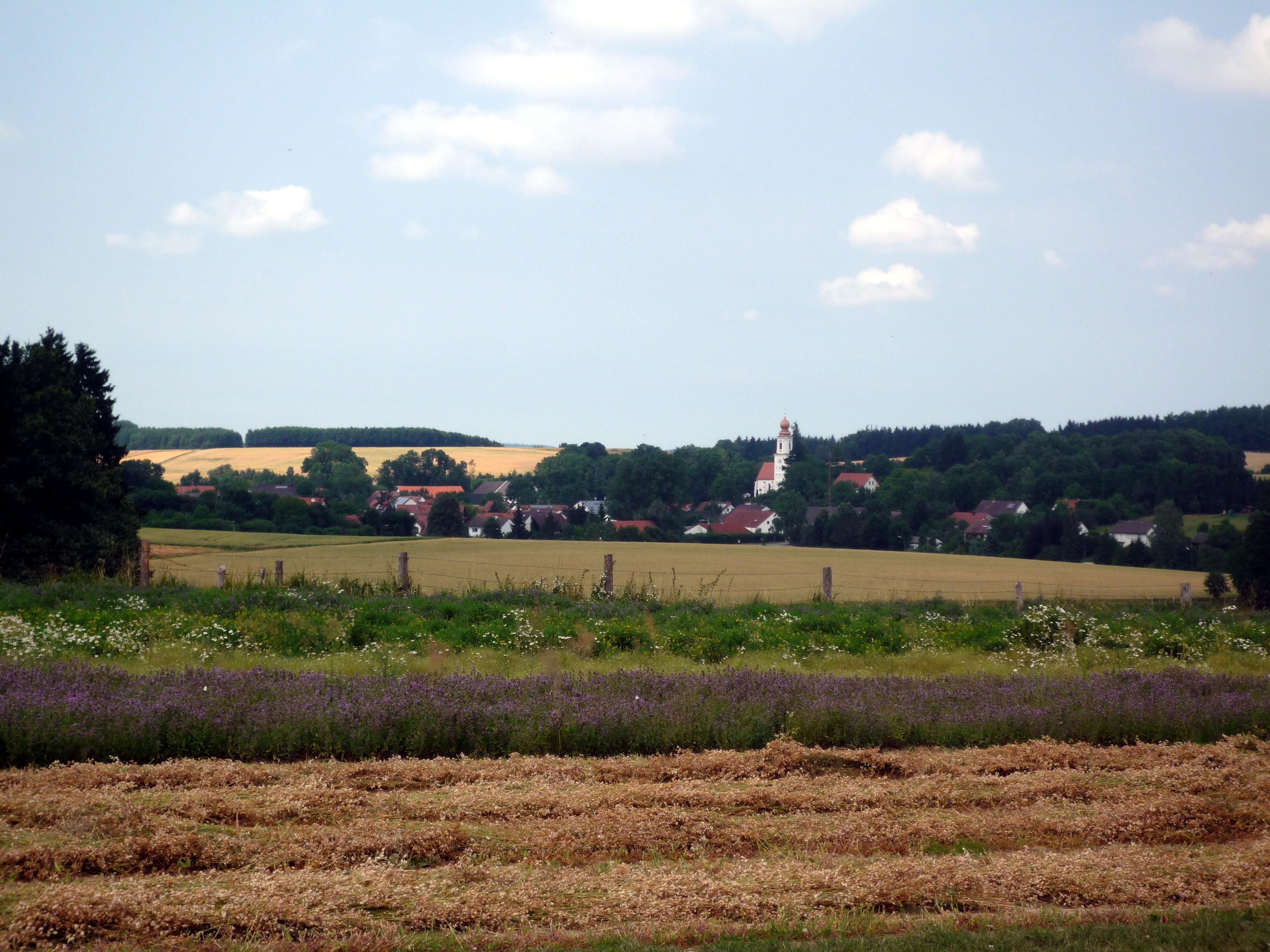 Tüntenhausen, part of Freising, Bavaria